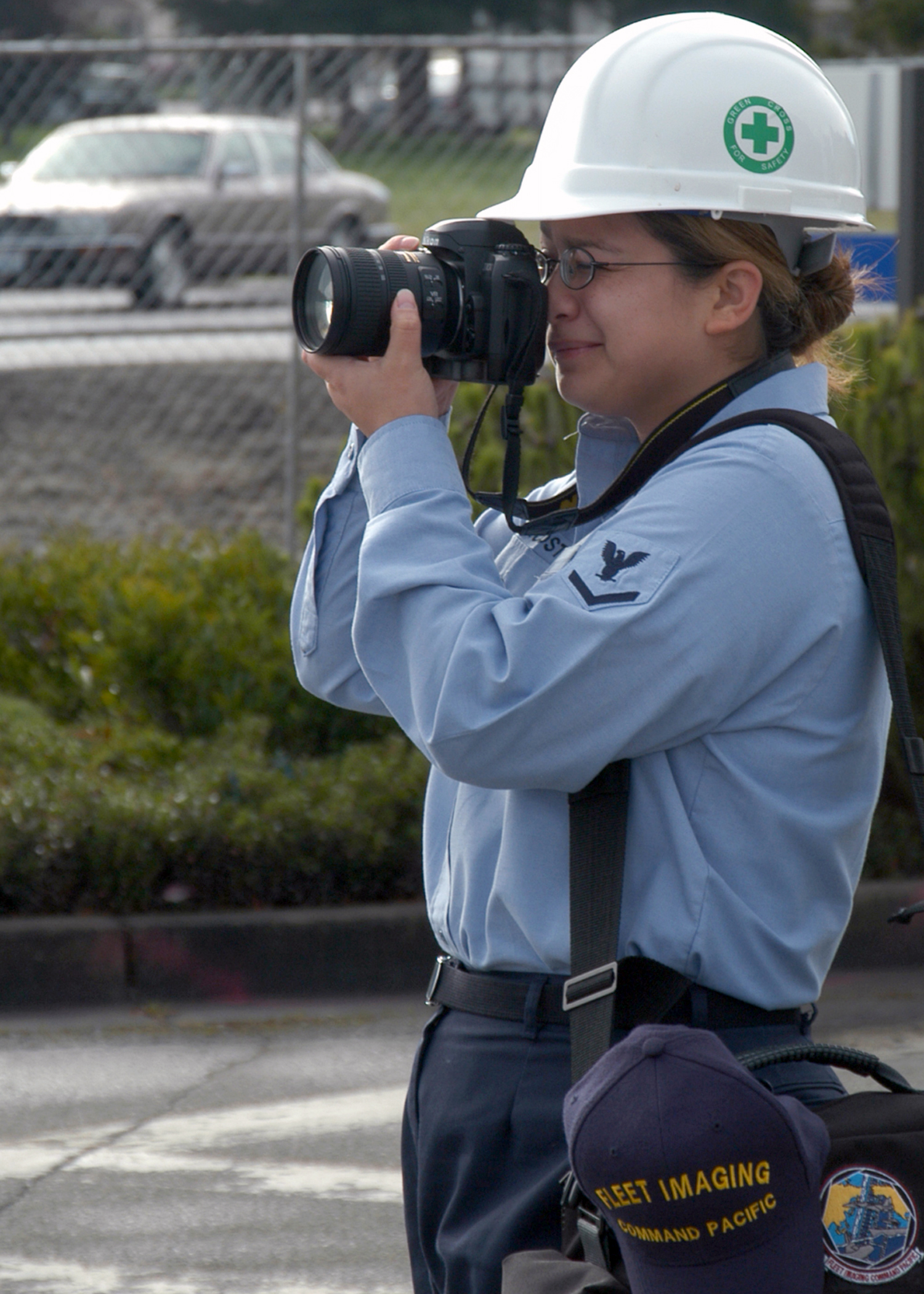 Naval Air Station Whidbey Island, Washington (Mar. 10, 2004). Photographer's mate 3rd class Elizabeth Acosta from Delano, California, documents work being done at a construction site on Naval Air Station (NAS) Whidbey Island. Acosta is assigned to Fleet Imaging Center Pacific, NAS Whidbey Island.